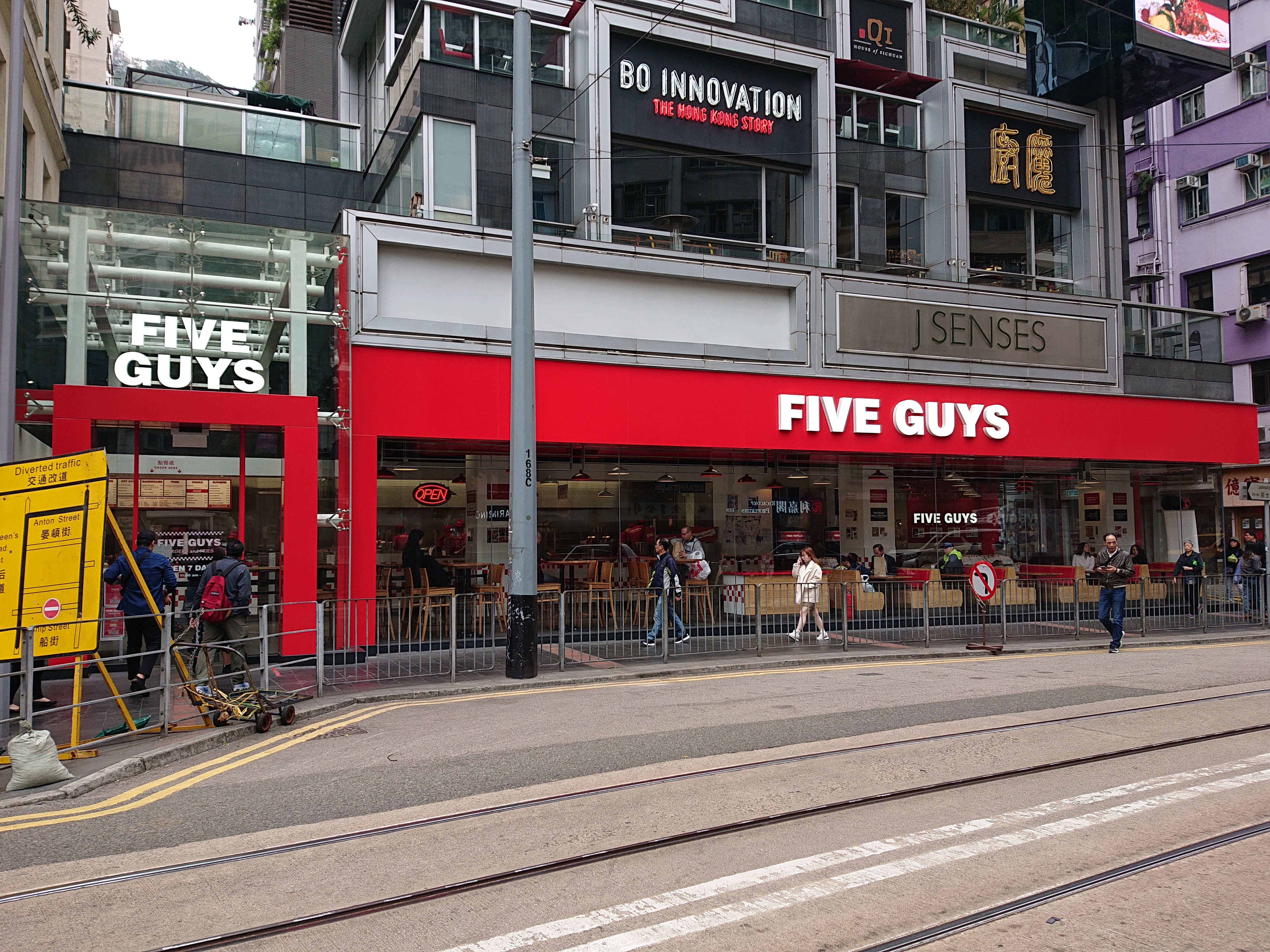 Five Guys in Hong Kong